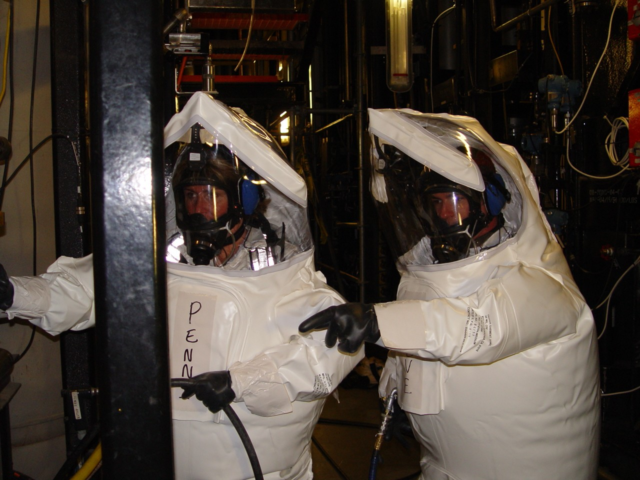 Two workers in demilitarization protective ensemble (DPE) performed maintenance work in an area of the Newport Chemical Agent Disposal Facility (NECDF) where chemical agent may have been present. The DPE provided the highest level of protection against agent exposure. To further ensure worker safety, personnel in DPE worked in pairs. The Army completed destruction operations at the NECDF in August 2008.